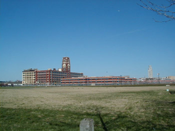 The Nipper Building Converted to Luxury Apartments in 2003, former home of the RCA-Victor